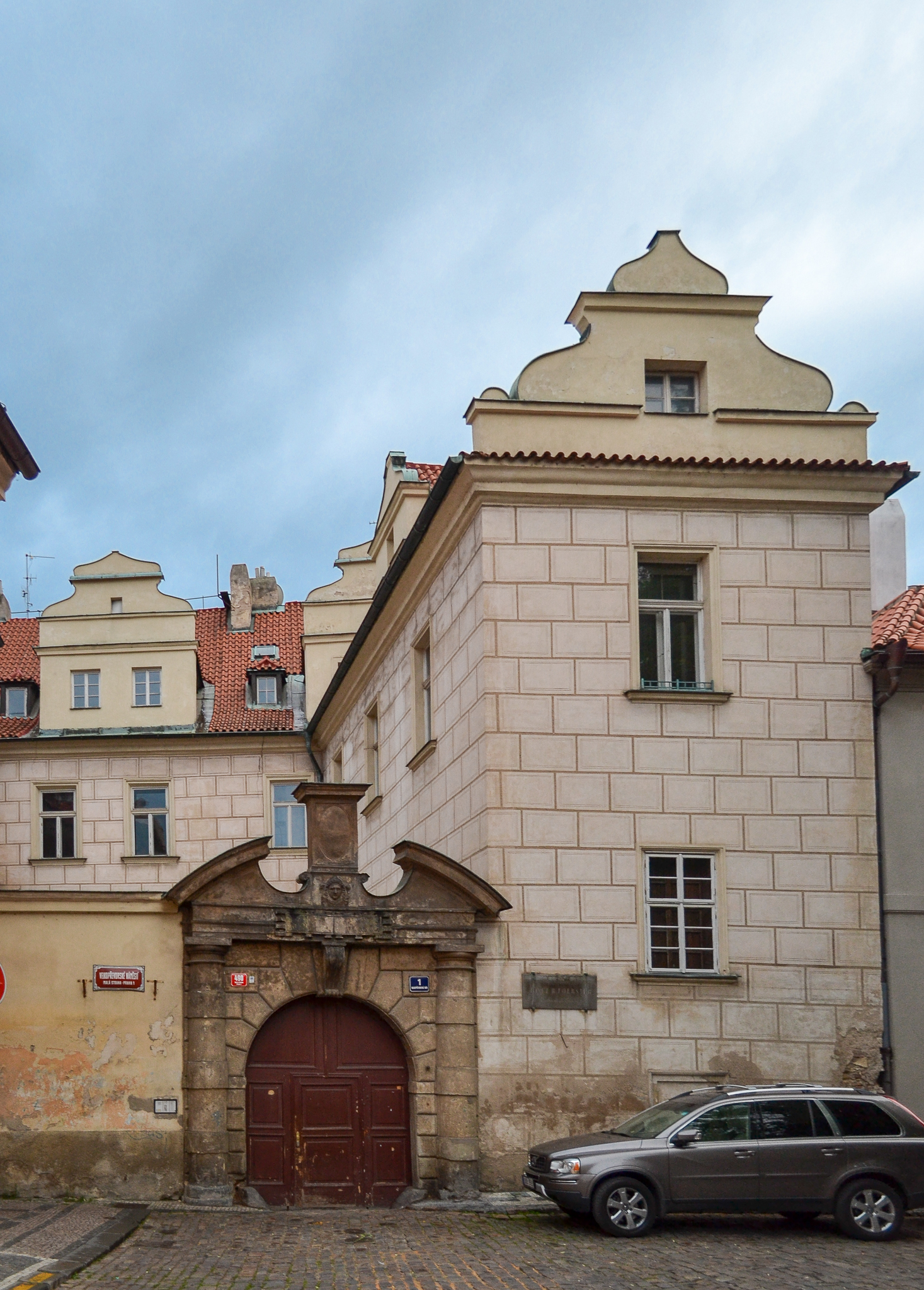 Palác Metychů z Čečova, Velkopřevorské nám. 1, Prague, Czech Republic